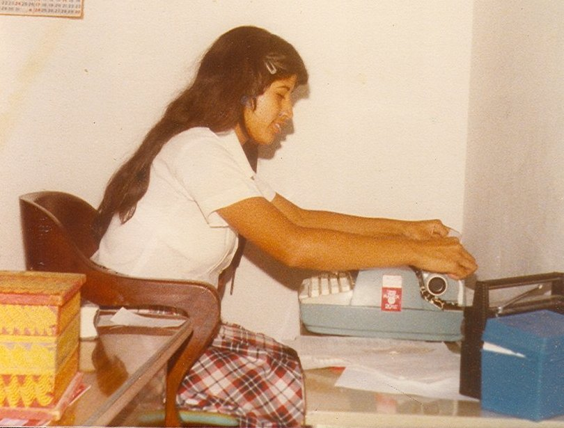 Young woman puts paper into a typewriter, June, 1979. Also visible on the desk are a portable radio and a blue plastic box for holding index cards (commonly alphabetized with name, addresses, and telephone numbers). Photo by Infrogmation, June 1979. Different print deriving from same negative under different license: File:Lucky Typewriter Bigprint.jpg